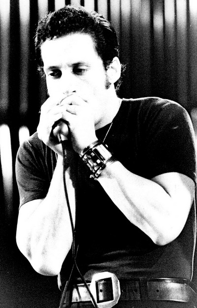 Harpist Jerry Portnoy in Paris, France